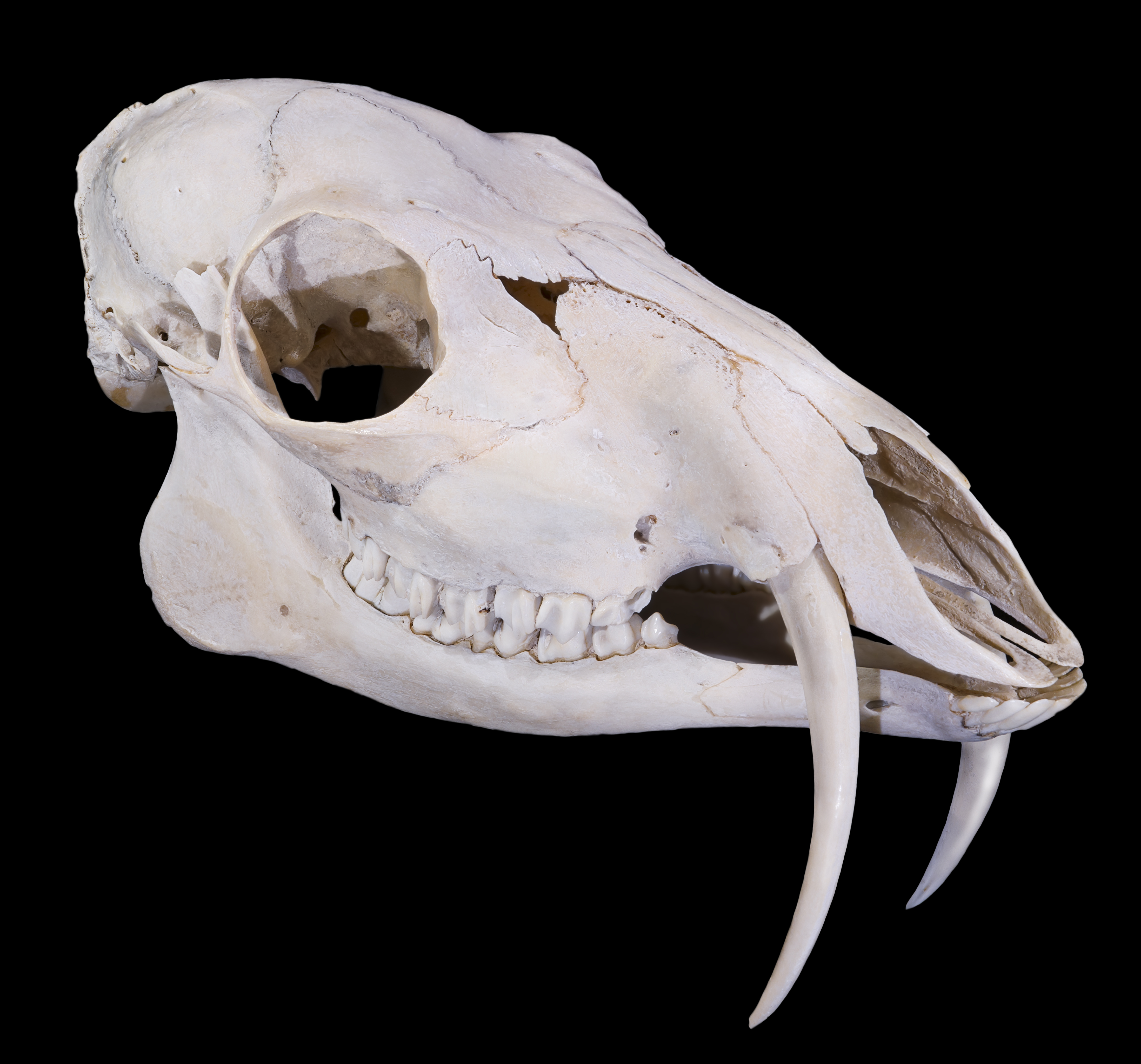 Skull of Siberian Musk Deer Moschus moschiferus (View ¾ face.) - Siberia Size : 17,5 × 8 × 6 cm.